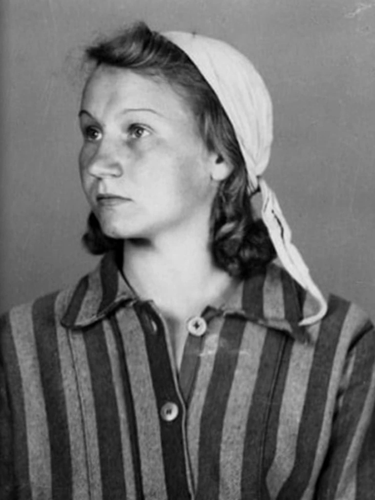 Zofia Posmysz, Auschwitz concentration camp prisoner number 7566.